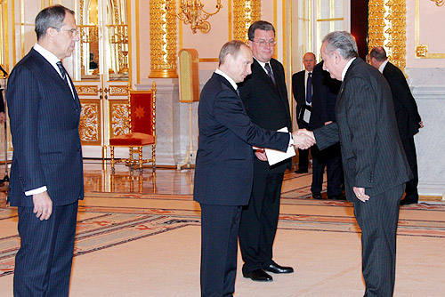 ALEXANDER HALL, GRAND KREMLIN PALACE. Ambassador of the Republic of Panama Augusto Aurelio Fabrega Donado presents his letter of credentials.